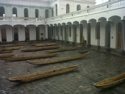 Historic Center of Quito at the Old Military Hospital, photograph taken in courtyard of antique dug out canoe's - World Heritage Site by UNESCO - A dugout or dugout canoe is a boat made from a hollowed tree trunk. Other names for this type of boat are logboat and monoxylon. Monoxylon (μονόξυλον) (pl: monoxyla) is Greek -- mono- (single) + ξύλον xylon (tree) -- and is mostly used in classic Greek texts. In Germany they are called einbaum ("one tree" in English). Some, but not all, pirogues are also constructed in this manner. Dugouts are the oldest boats archaeologists have found, dating back about eight thousand years.[1] This is probably because they are made of massive pieces of wood, which tend to preserve better than, e.g., bark canoes. Einbaum dug-out boat finds in Germany date back to the Stone Age. Along with bark canoe and hide kayak, dugout boats were also used by indigenous peoples of the Americas.